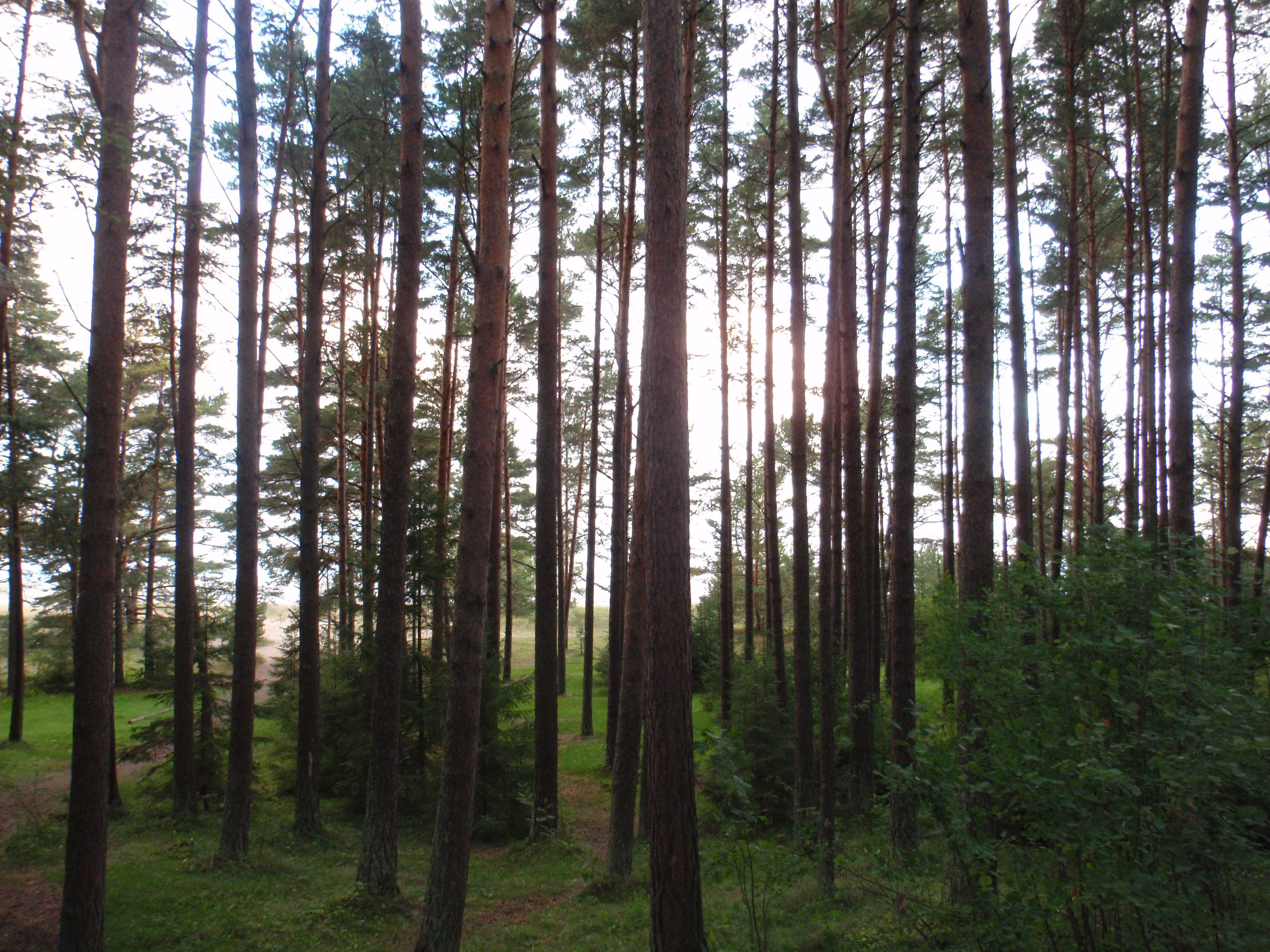 Pine forest in Karepa